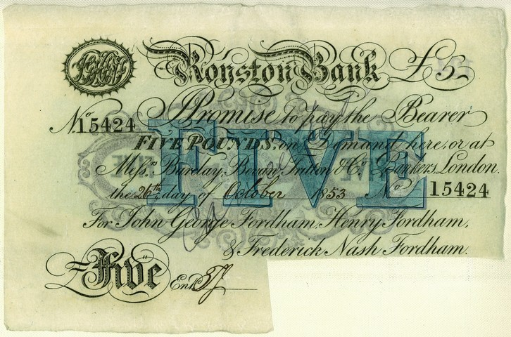 Banknote from the Royston Bank in Royston, Hertfordshire, England, cancelled by cutting.